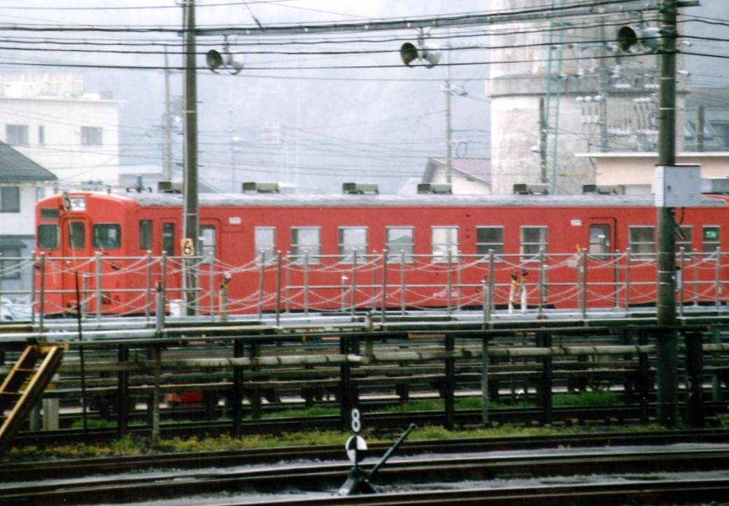 West Japan Railway Type Kiha30-1001 DMU(Japan).